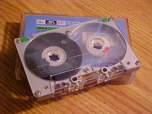 TDK Compact Cassette.